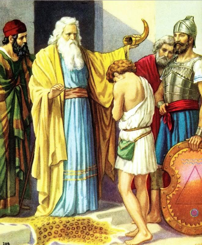 David anointed by Samuel